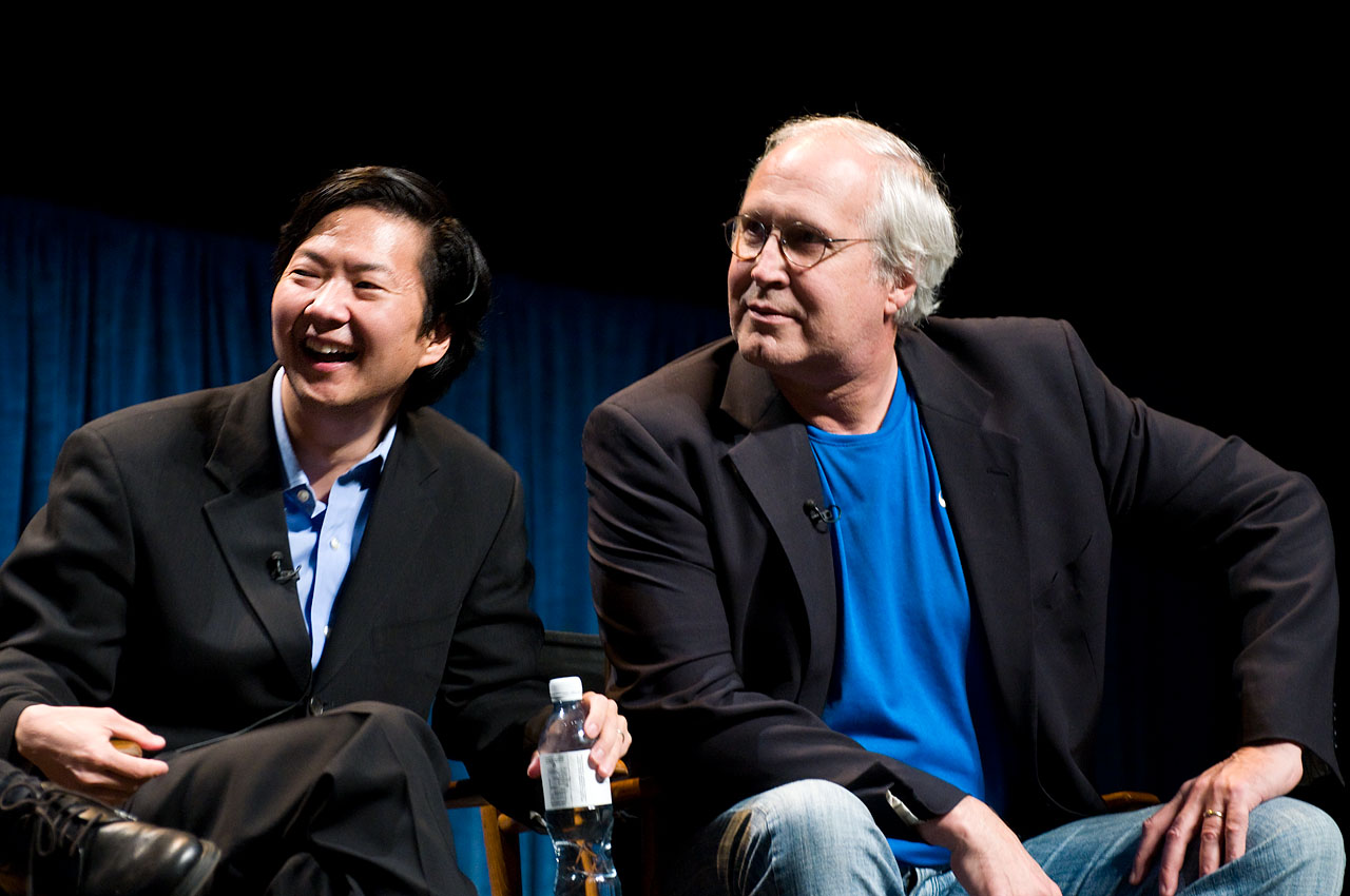 Ken Jeong and Chevy Chase at a panel for Community at PaleyFest 2010.